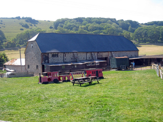 Seven Sisters Sheep Centre, Gilberts Drive, East Dean, East Sussex